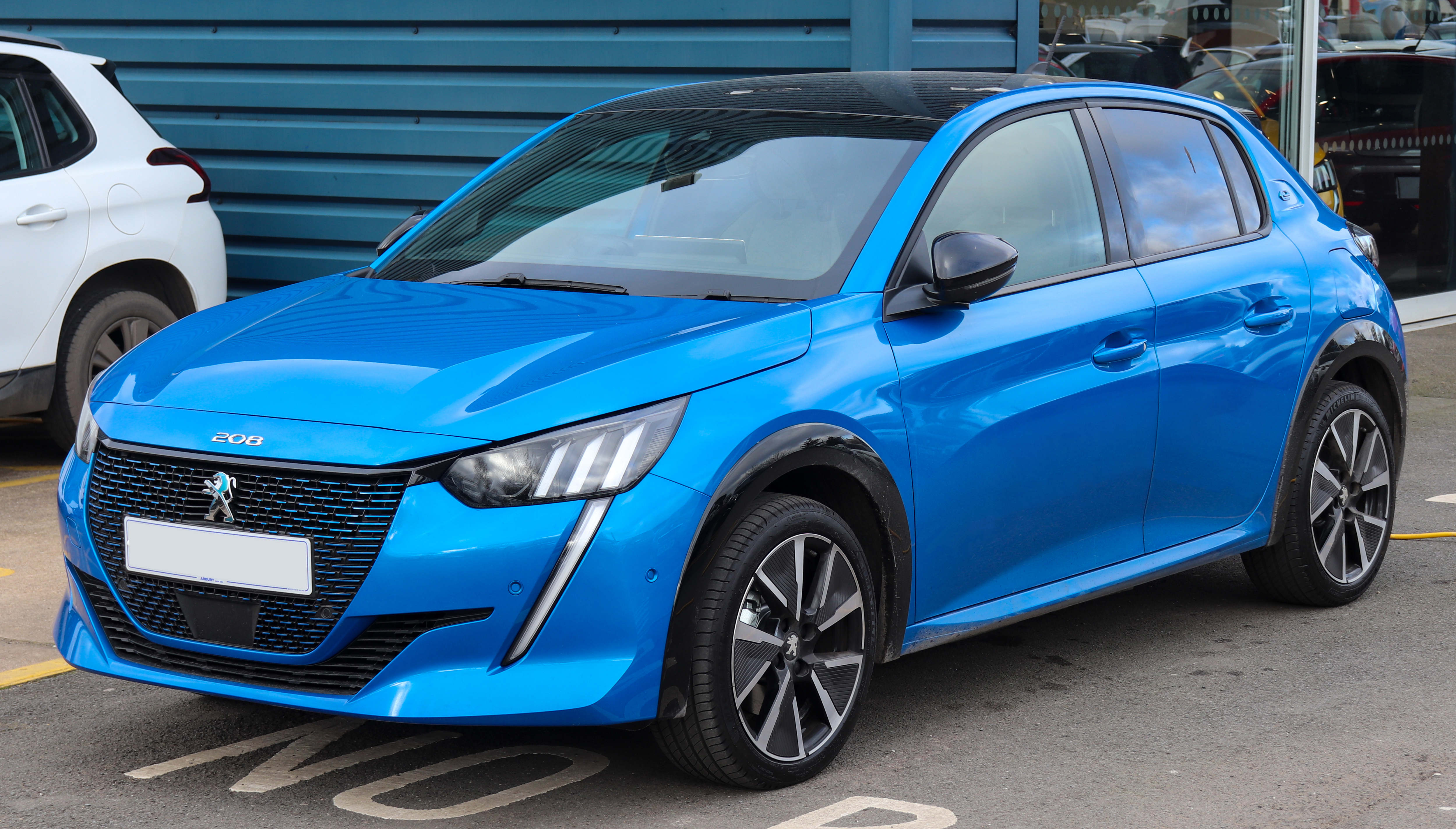 2020 Peugeot e-208 GT Front Taken in Leamington Spa